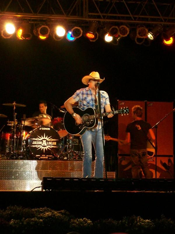 Jason Aldean at the Great Frederick Fair, Frederick, Maryland.